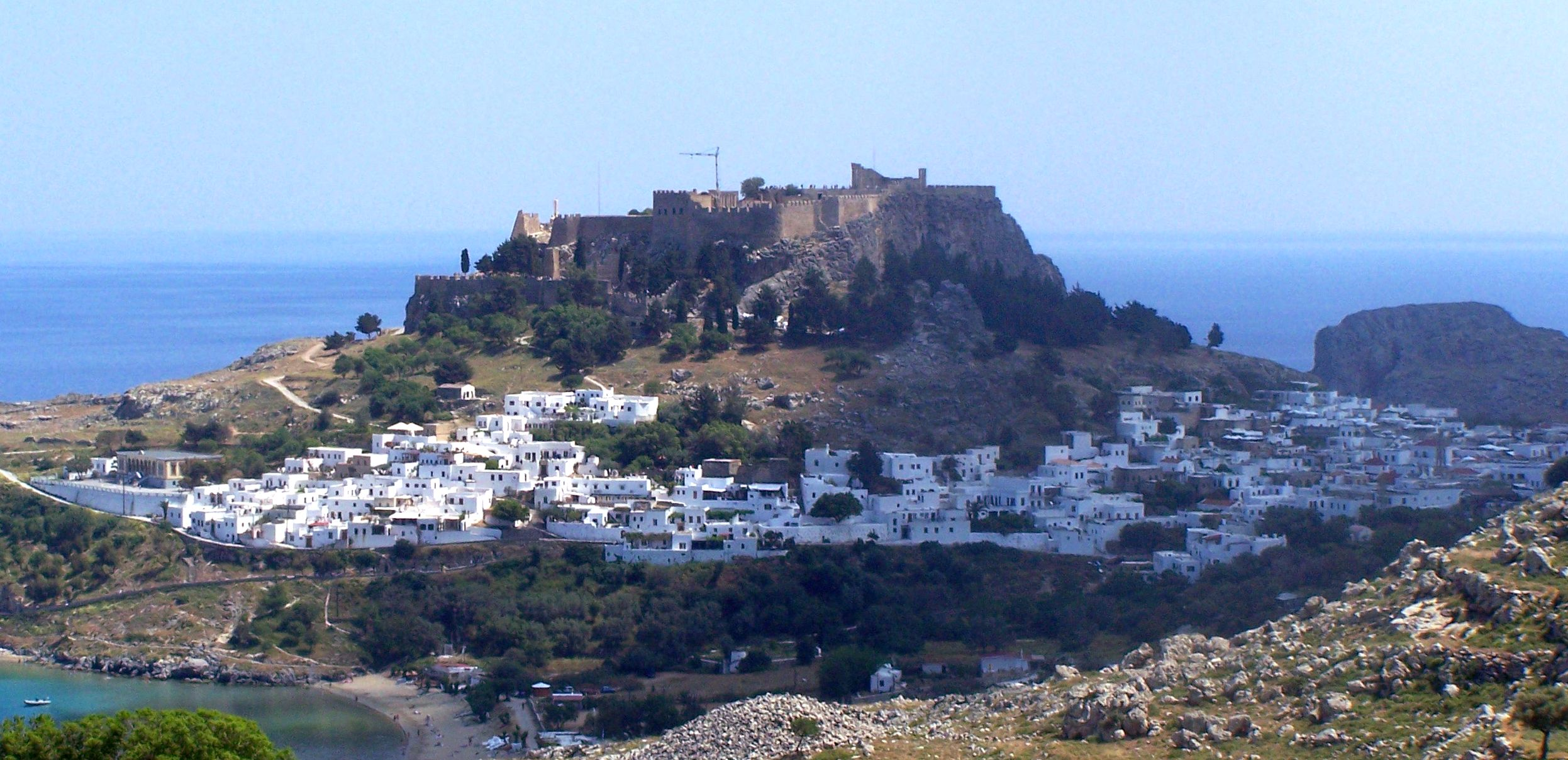 Acropolis of Lindos